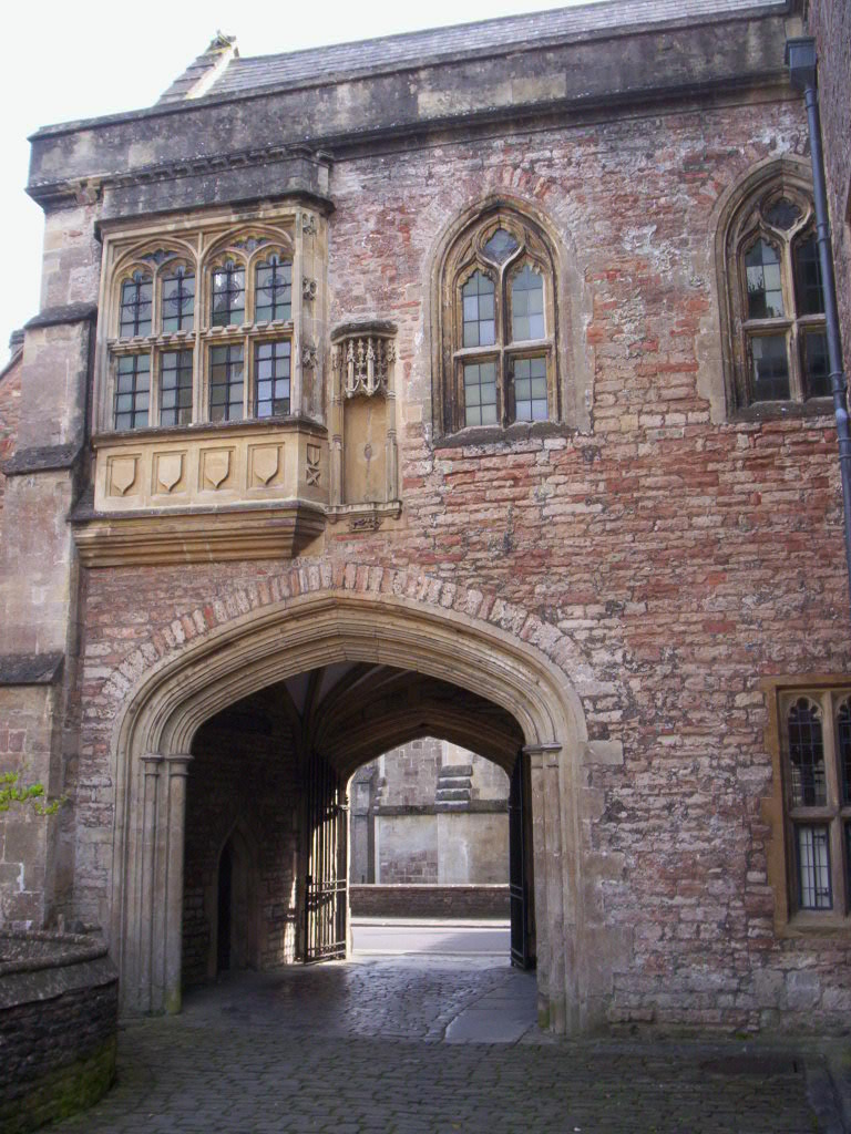 Vicars Hall, Vicars Close, Wells, Somerset